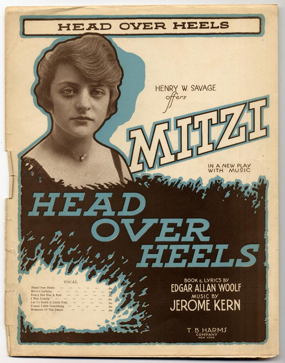 Sheet music cover of "Head over Heels", from the musical of the same name.